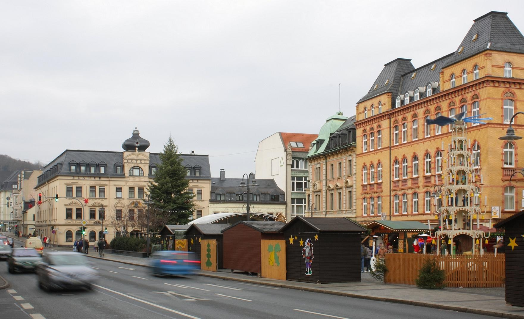 Aue, Saxony: Weihnachtsmarkt at Altmarkt square.